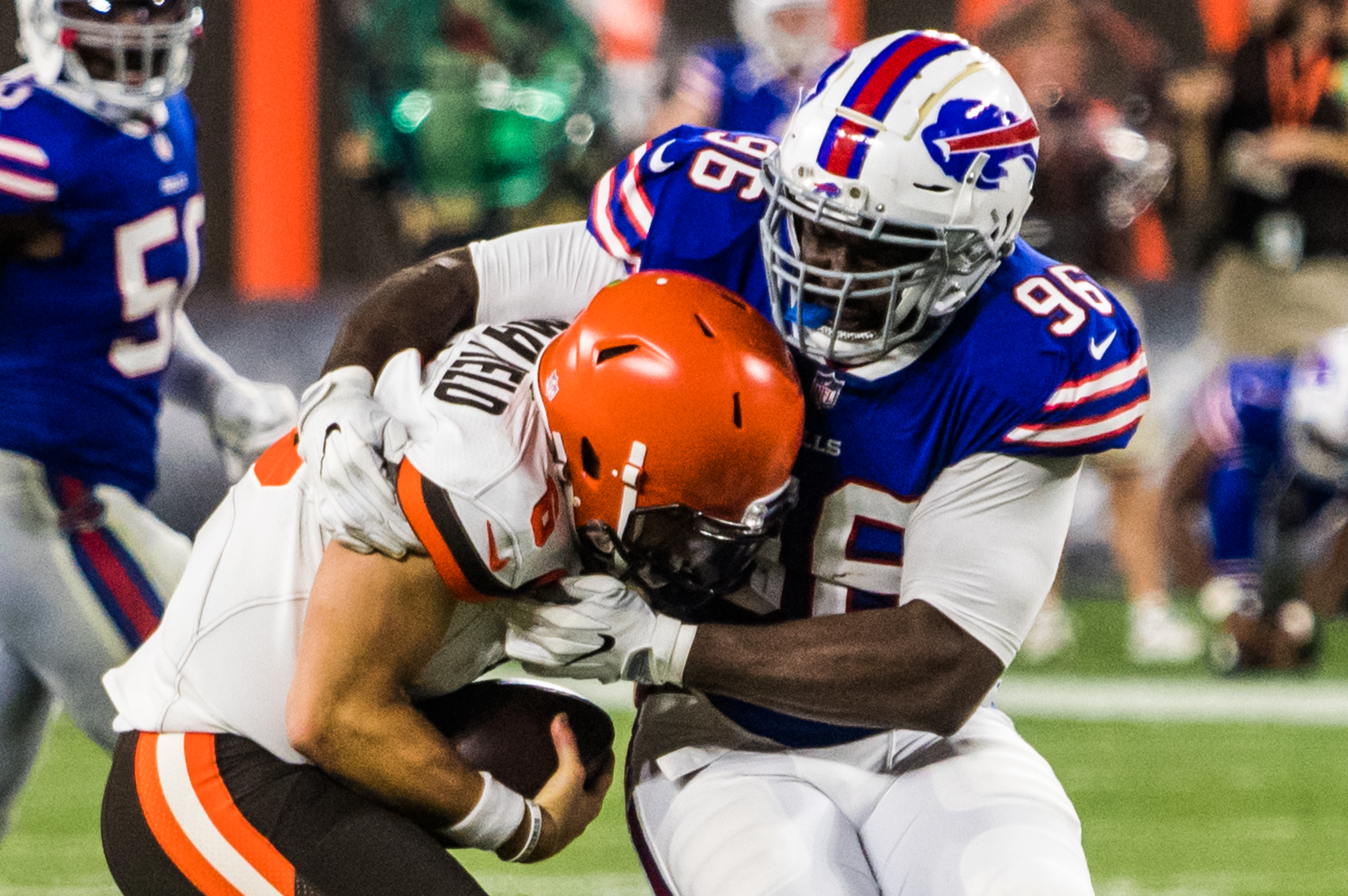 Cleveland Browns vs. Buffalo Bills